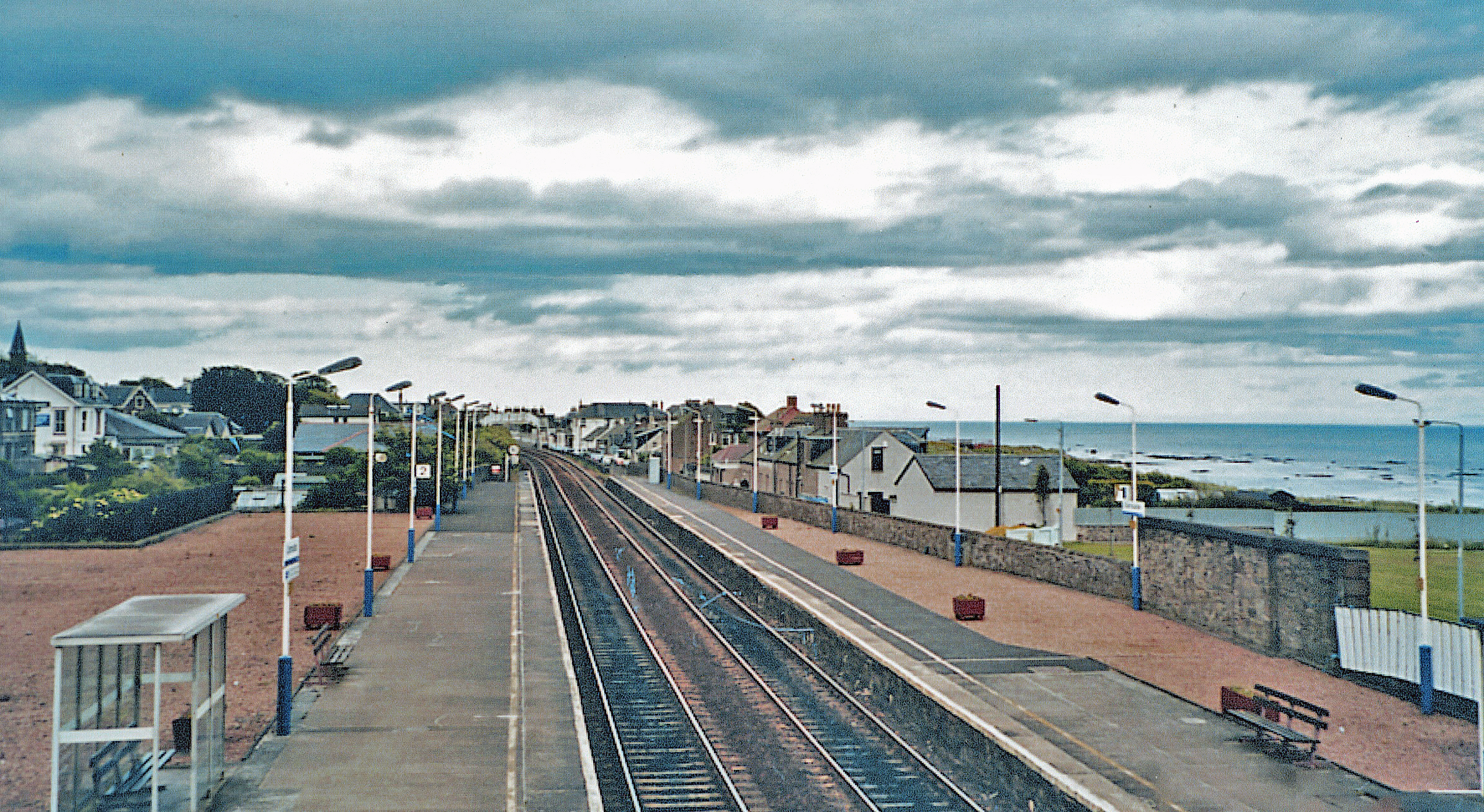 Carnoustie station. View northward, towards Arbroath, Montrose and Aberdeen: ex-Caledonian & North British (Dundee & Arbroath Railway) section of Edinburgh/Glasgow - Dundee - Aberdeen main line.